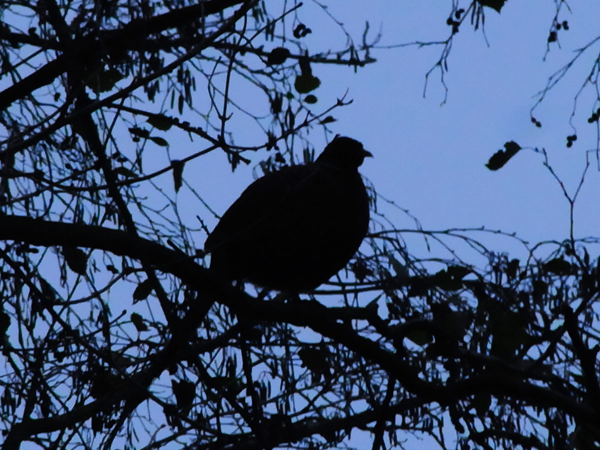 Male Common Pheasant (Phasianus colchicus) on his sleeping tree, Riddagshausen near Braunschweig